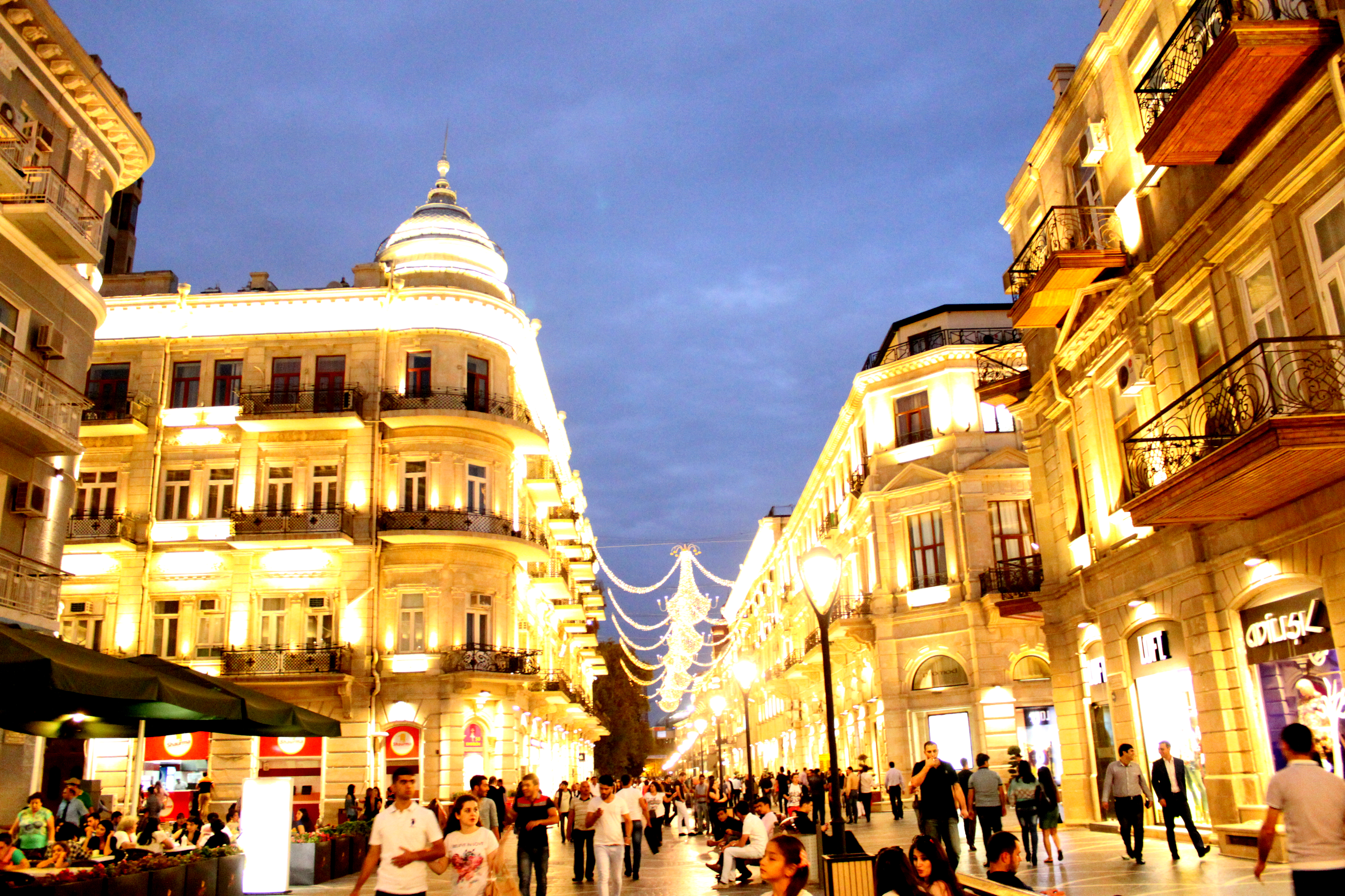 Nizami street historical complex